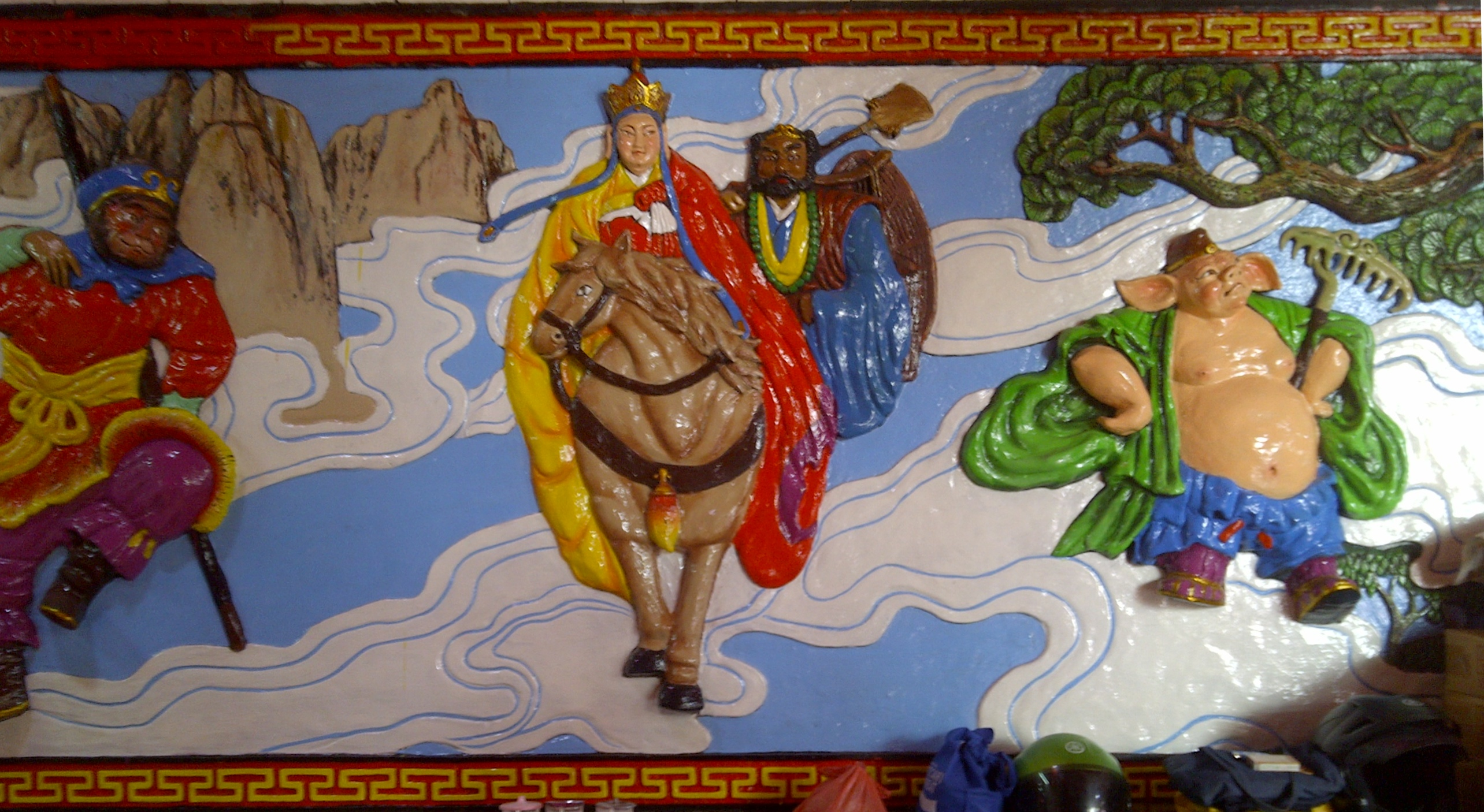 Diorama of Journey to the West at Hong San Koo Tee Temple, Surabaya, Indonesia